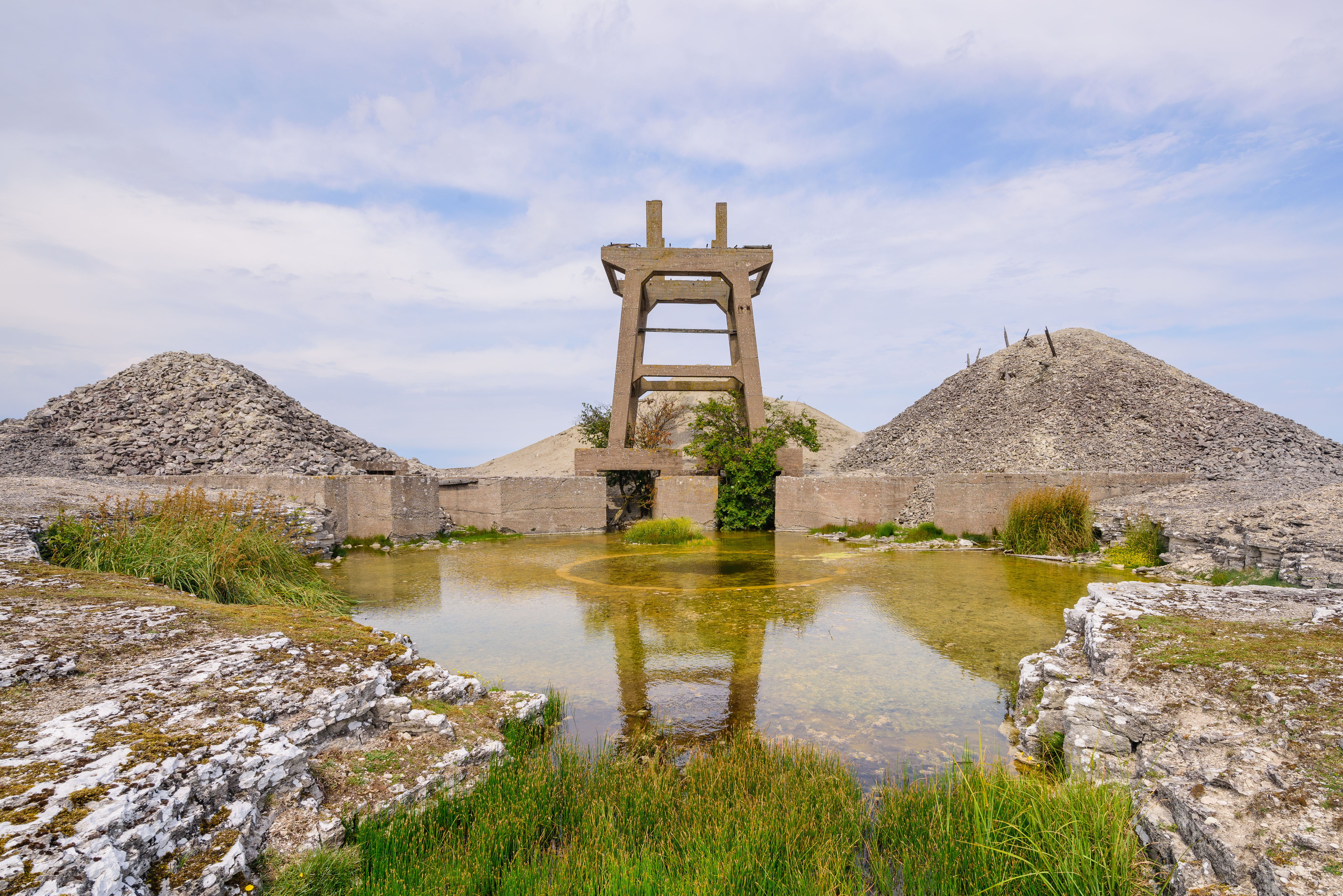 Remains of the shipping port for the former Norsholmen kalkbruk (lime work). Norsholmen, Fårö .